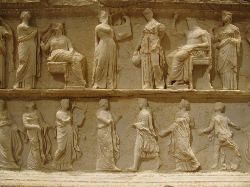 350 b.c. marble sanctuary of eshmun bustan esh sheikh, near sidon upper level depicts apollo with a cithera and athena with a helmet. behind athena, zeus is seated with hera behind him. behind apollo, leto faces artemis. lower level depicts dancers and musicians.